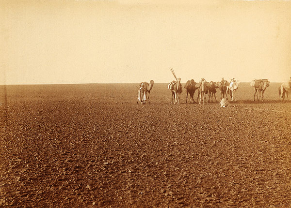 Photo by Fernand Foureau during his transsaharian journey of 1890. The photo takes place in Tademayt, Algeria.